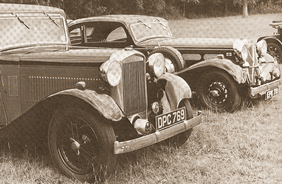 1936 British Salmson 14 hp (left) and 1936 British Salmson 20/90 hp (right)